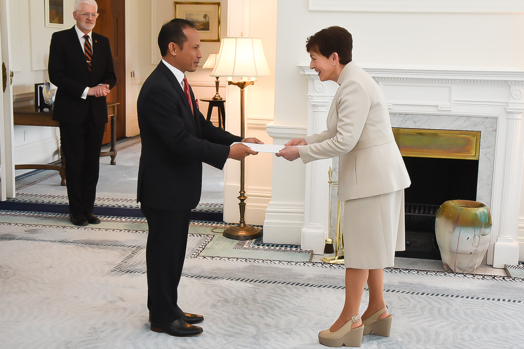 Timor-Leste’s Ambassador presents the Letters of Credence to the Governor-General of New Zealand H.E. Mr. Lisualdo Gaspar, Ambassador of Timor-Leste presented the Letters of Credence to Her Excellecy Right Honourable Dame Pasty Reddy, GNZM, QSO, Governor General of New Zealand in a solemn ceremony held in the Government House, Wellington, New Zealand on 12 November 2019. In the speech during the ceremony, Ambassador Lisualdo Gaspar conveyed the warm greetings from His Excellency President Dr. Francisco Guterres Lú Olo to the Governor General, the Government and the people of New Zealand and best wishes for the prosperity of New Zealand and the long lasting friendship between the two countries. Timorese Ambassador also acknowledged with gratitude for the continued support provided by New Zealand to Timor-Leste since 1999 until today. He also affirmed the commitment of the Ambassador to work with the Government of New Zealand to further improve and enhance the very friendly and close relationship between Timor-Leste and New Zealand. Similarly, in her speech, Her Excellency Governor-General of New Zealand conveyed the best wishes and thanks to His Excellency President Lú Olo and restated the commitment of New Zealand to continue assist the development of Timor-Leste. The Governor General of New Zealand expressed the admiration for the strength, courage and tenacity of Timorese leaders and people during the long struggle for independence, as well as the sacrifices so many Timorese made for cause of independence. Furthermore, H.E. Dame Pasty Reddy noted with pleasure the remarkable achievement of Timor-Leste in terms of the stability, security and vibrant democracy in such a short time. During the presentation of the Letters of the Credence, Ambassador Lisualdo Gaspar was accompanied by his spouse Judith Vital Soares and First Secretary of the Embassy Mr. Armindo Simões. He is the second resident Ambassador of Timor-Leste to New Zealand after Ambassador Cristiano Costa.